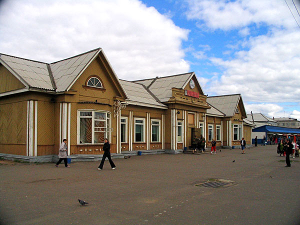 Vikhorevka train station, Demolished in 2007.